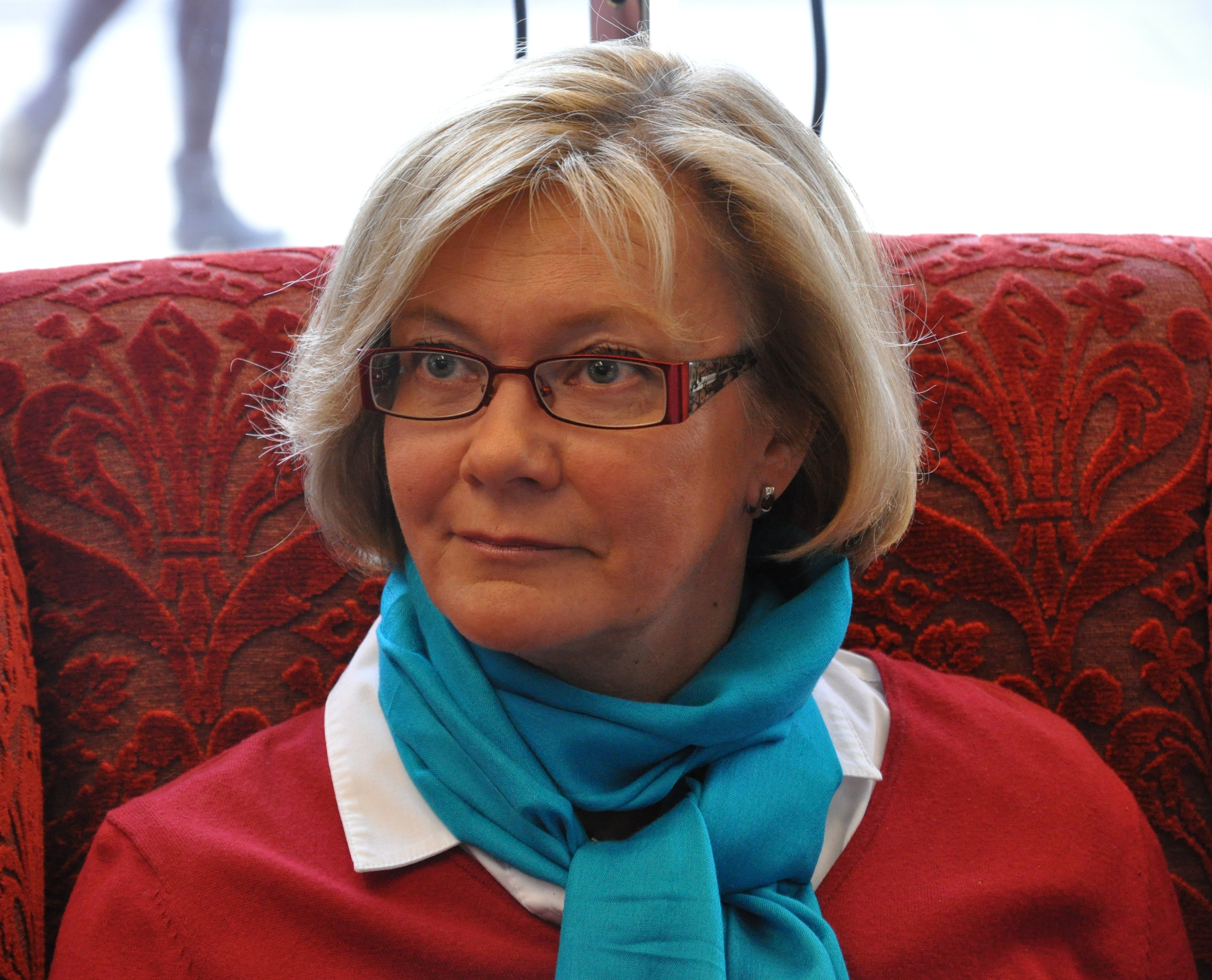 Finnish screenwriter, actor and author Elina Halttunen at the Pieni Kirjapuoti bookstore in Turku, Finland 2009.